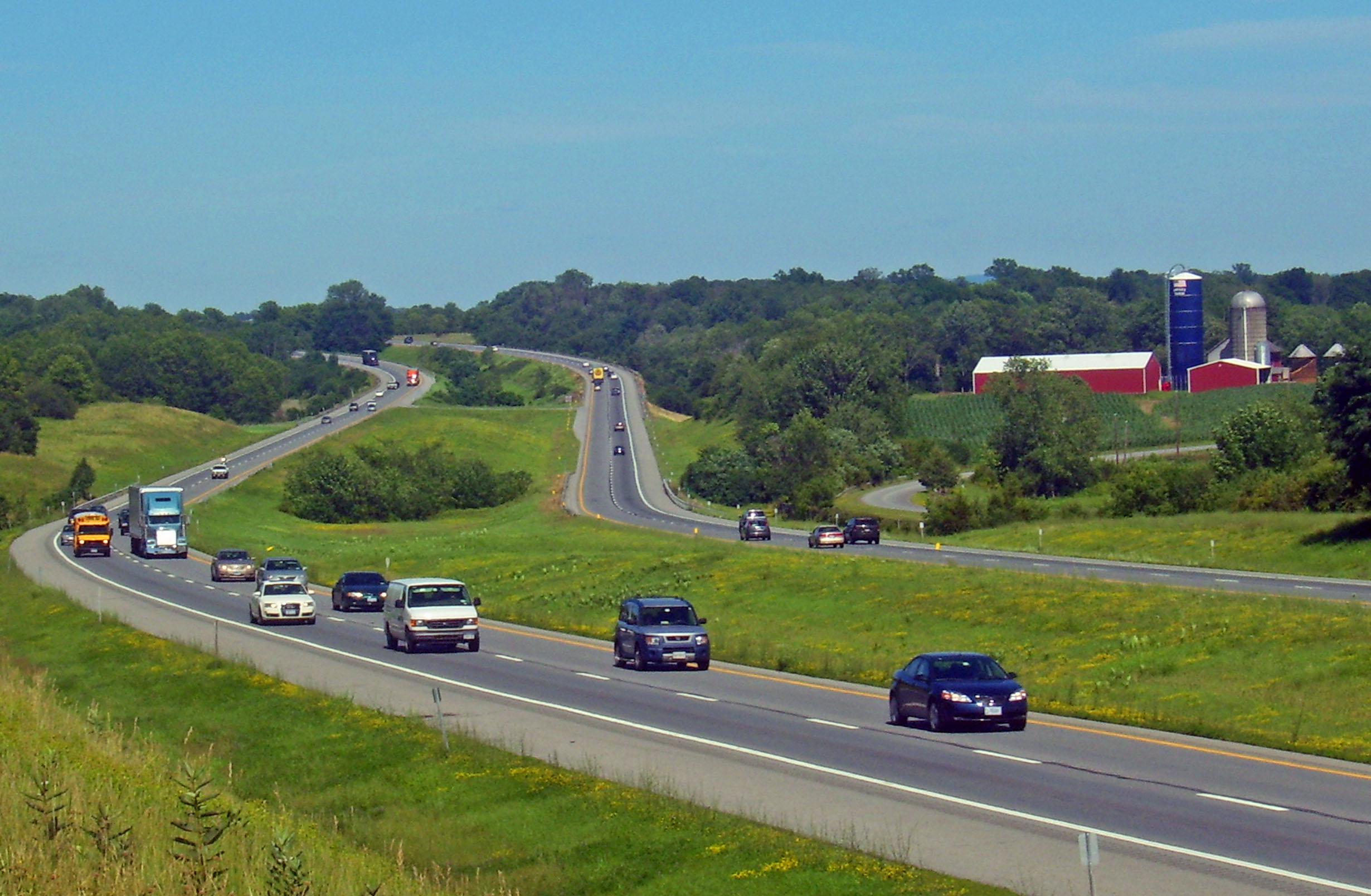 View east along I-84 in the Town of Wallkill, NY, USA, from embankment around MP 21.4 WB